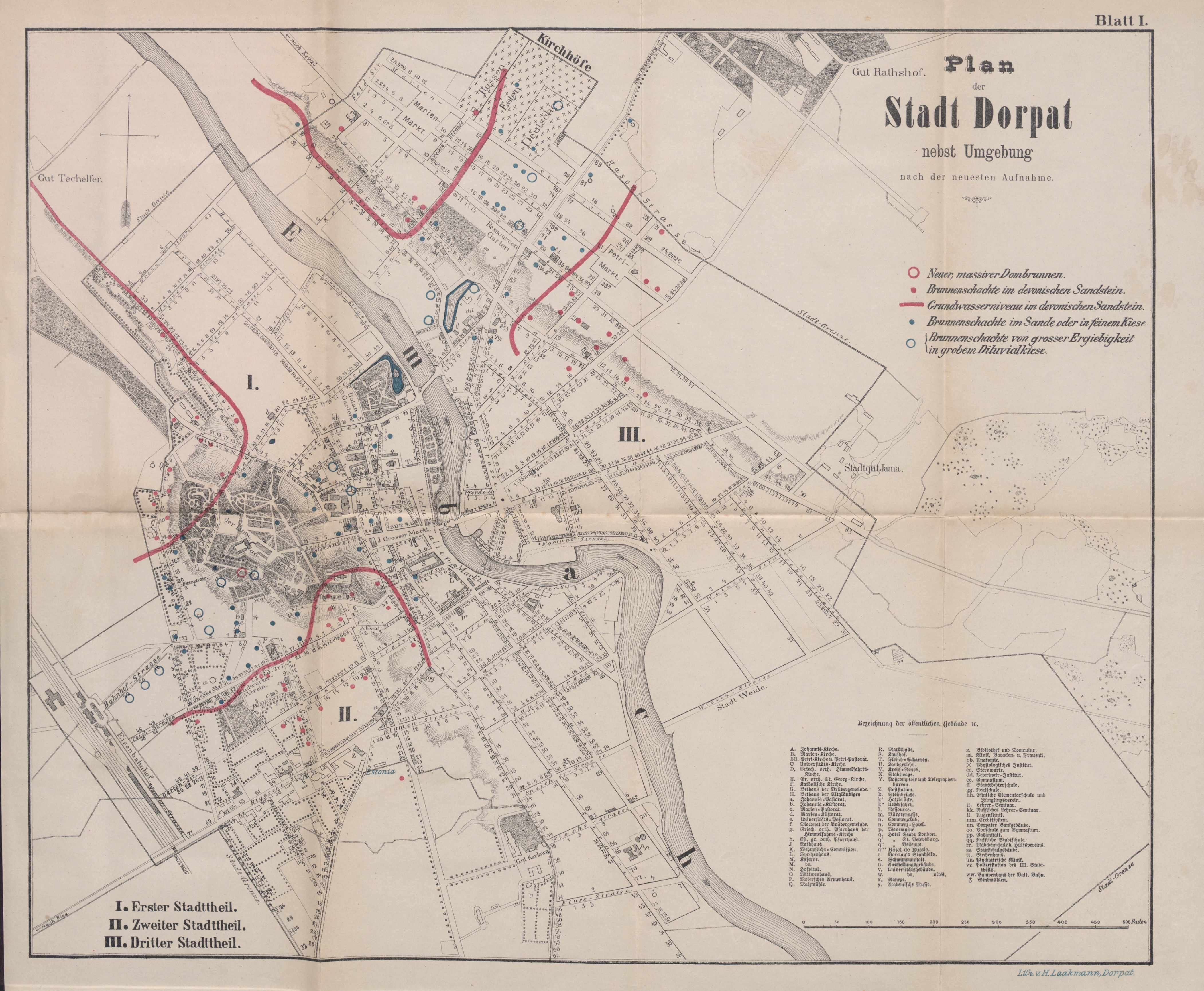 Plan of Tartu, Estonia. Probably 19 century